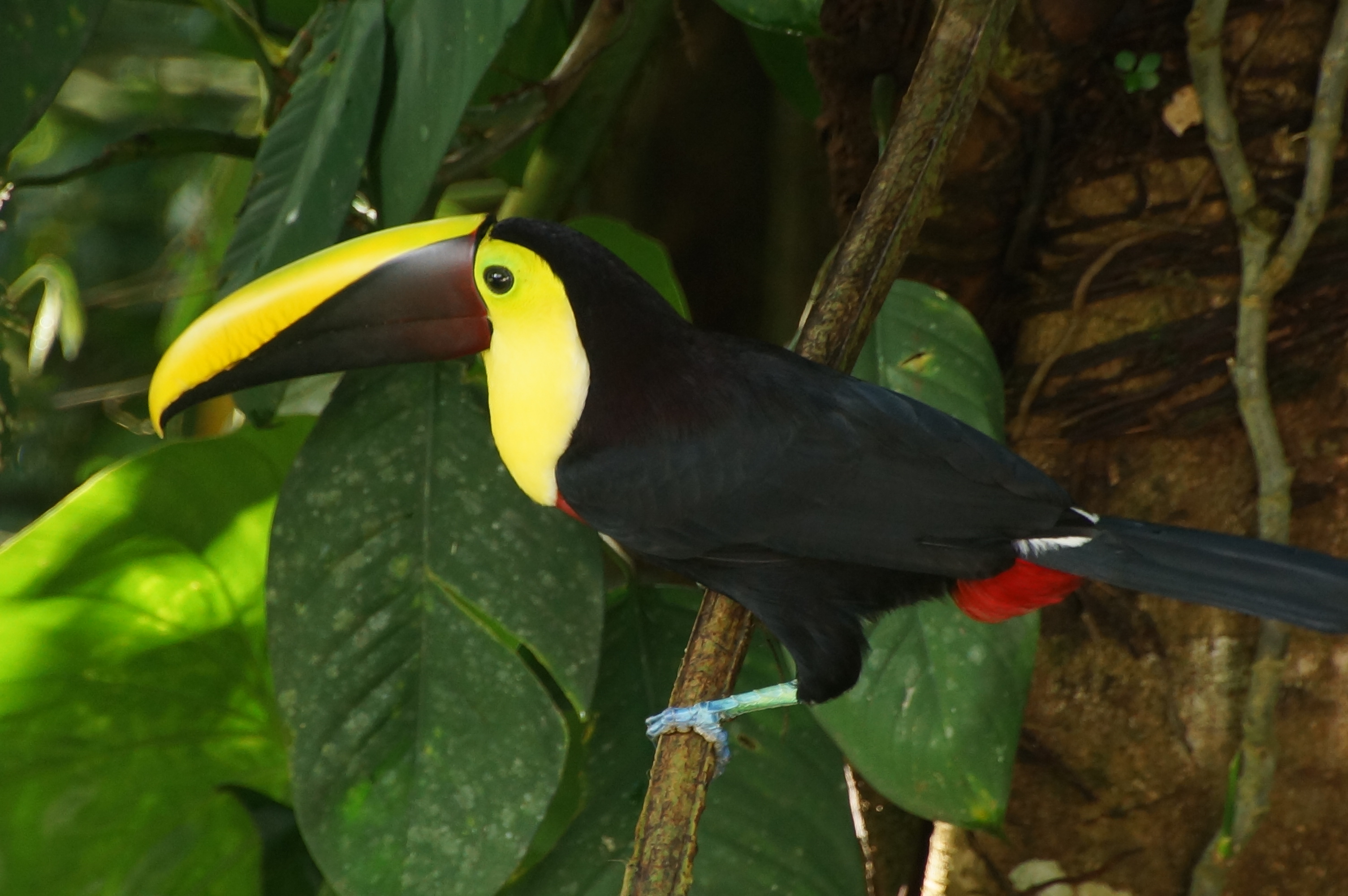 swainson's toucan in costa rica